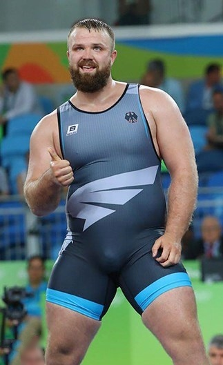 2016 Summer Olympics, Greco-Roman Wrestling 130 kg. Eduard Popp from Germany